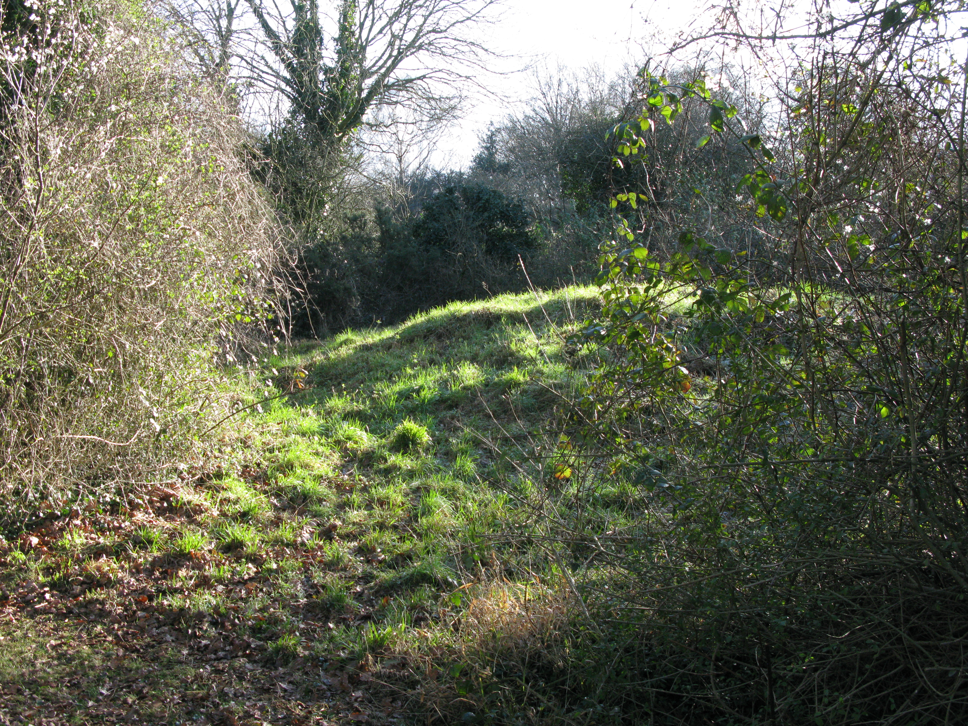 One of four tumuli called Gally Hills, on Banstead Downs golf course (Surrey, UK). Excavations of this hlaew in 1972 found the burial of a Saxon warrior as well as skeletons from a later gallows. It is a scheduled ancient monument: . The view is looking east from the fairway and just beyond the tree is the A217.